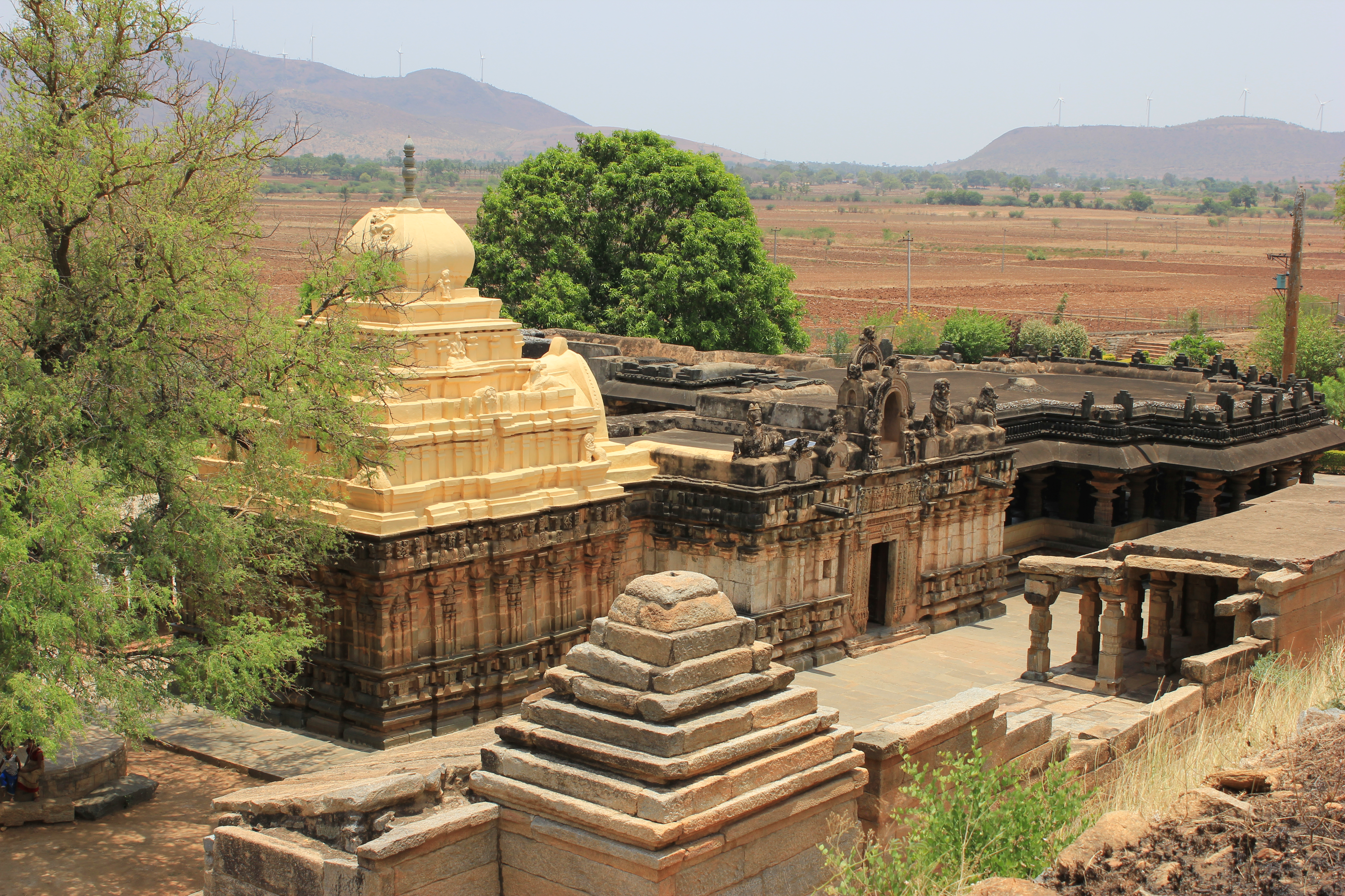 This photograph was taken by me at the Kalleshvara temple (also spelt Kalleshwara or Kallesvara) at Bagali (called Balgali in ancient times), Davangere district, Karnataka state, India. The construction of the temple shrine and closed mantapa was completed in the late Rashtrakuta empire period (mid-10th century). The ornate open mantapa was built by Western (Kalyani) Chalukya King Tailapa II in 987 A.D.